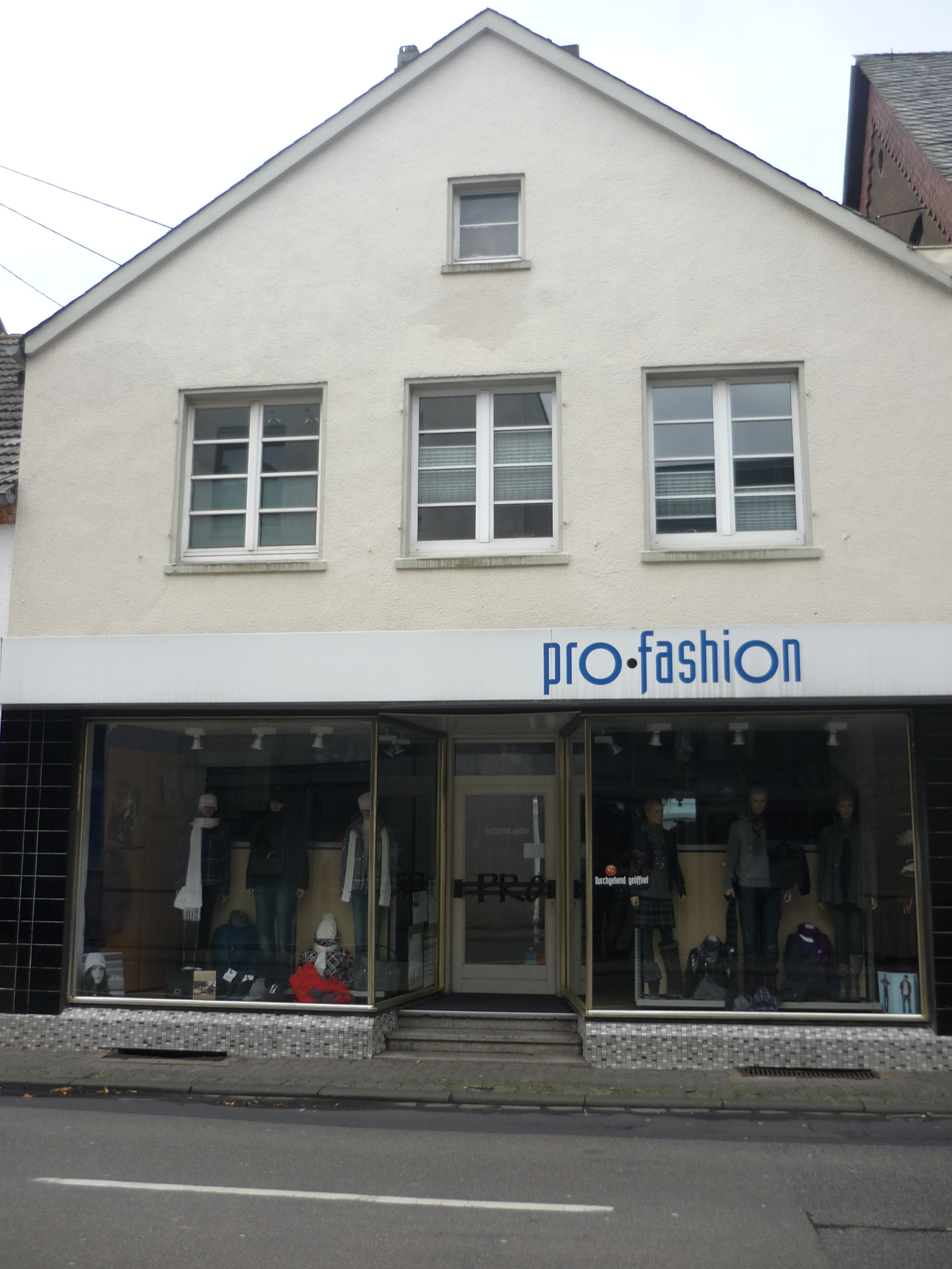 Former synagogue Hachenburg Westerwald